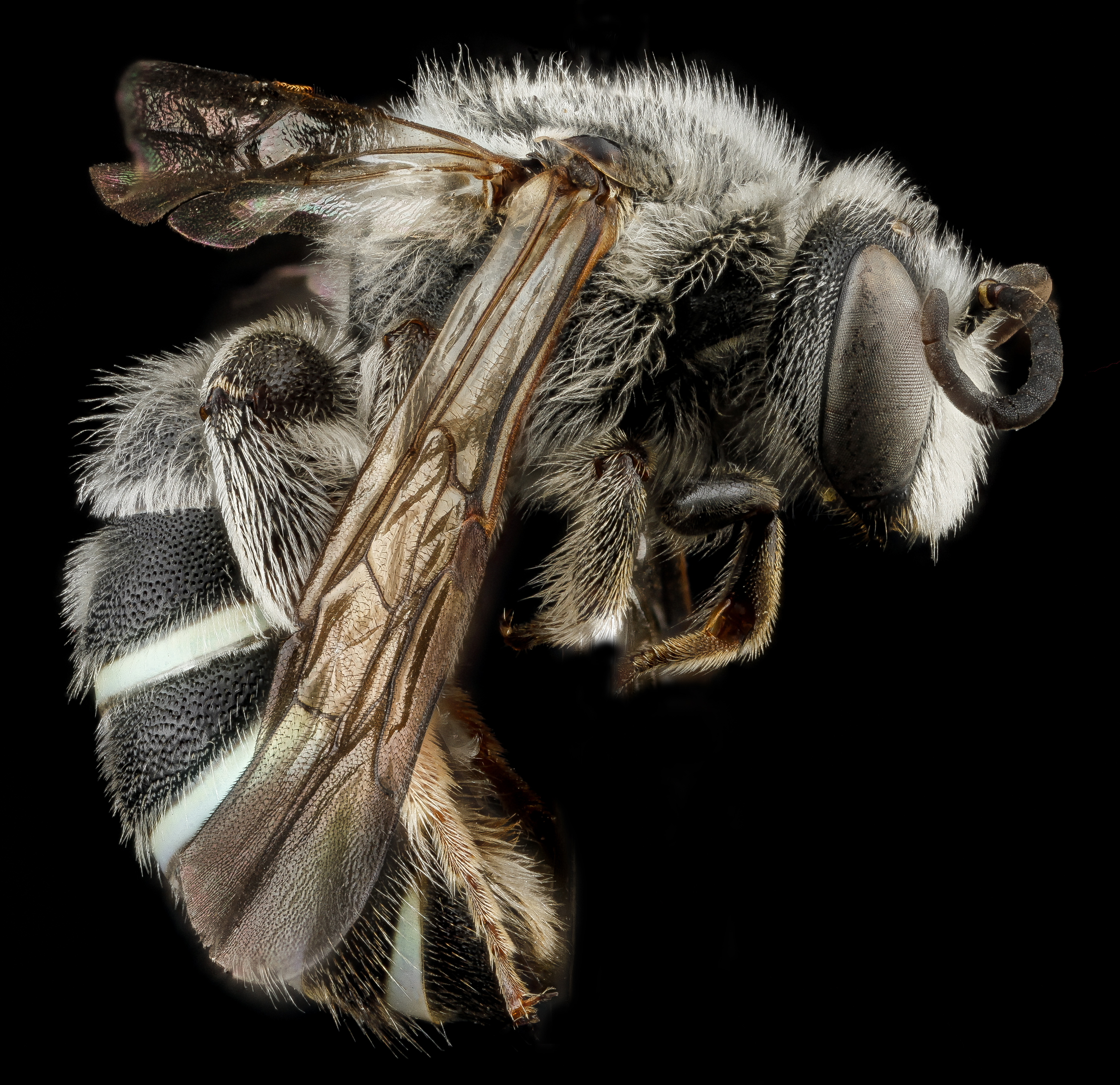 Nomia universitatis male, South Dakota, Badlands National Park